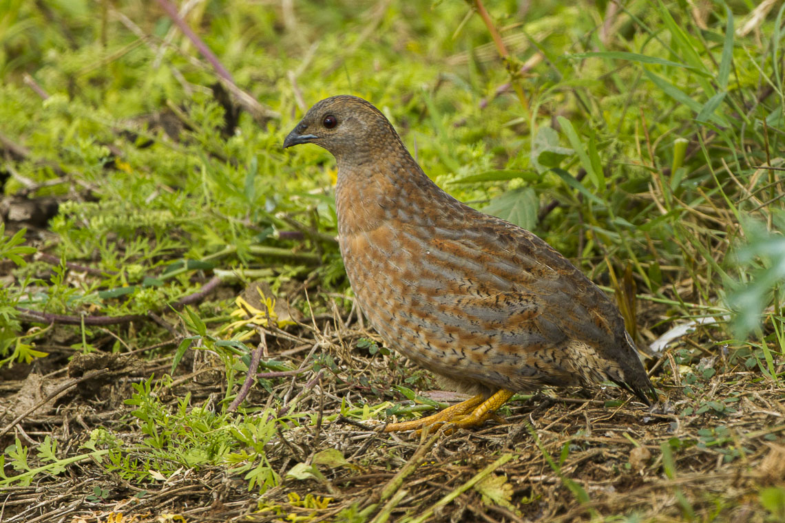 Brown Quail - Atherton - Queensland_S4E9000